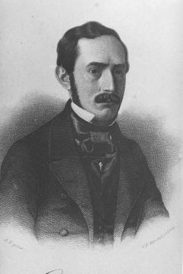 Leopold Kompert (1822-1886); Austrian jewish writter